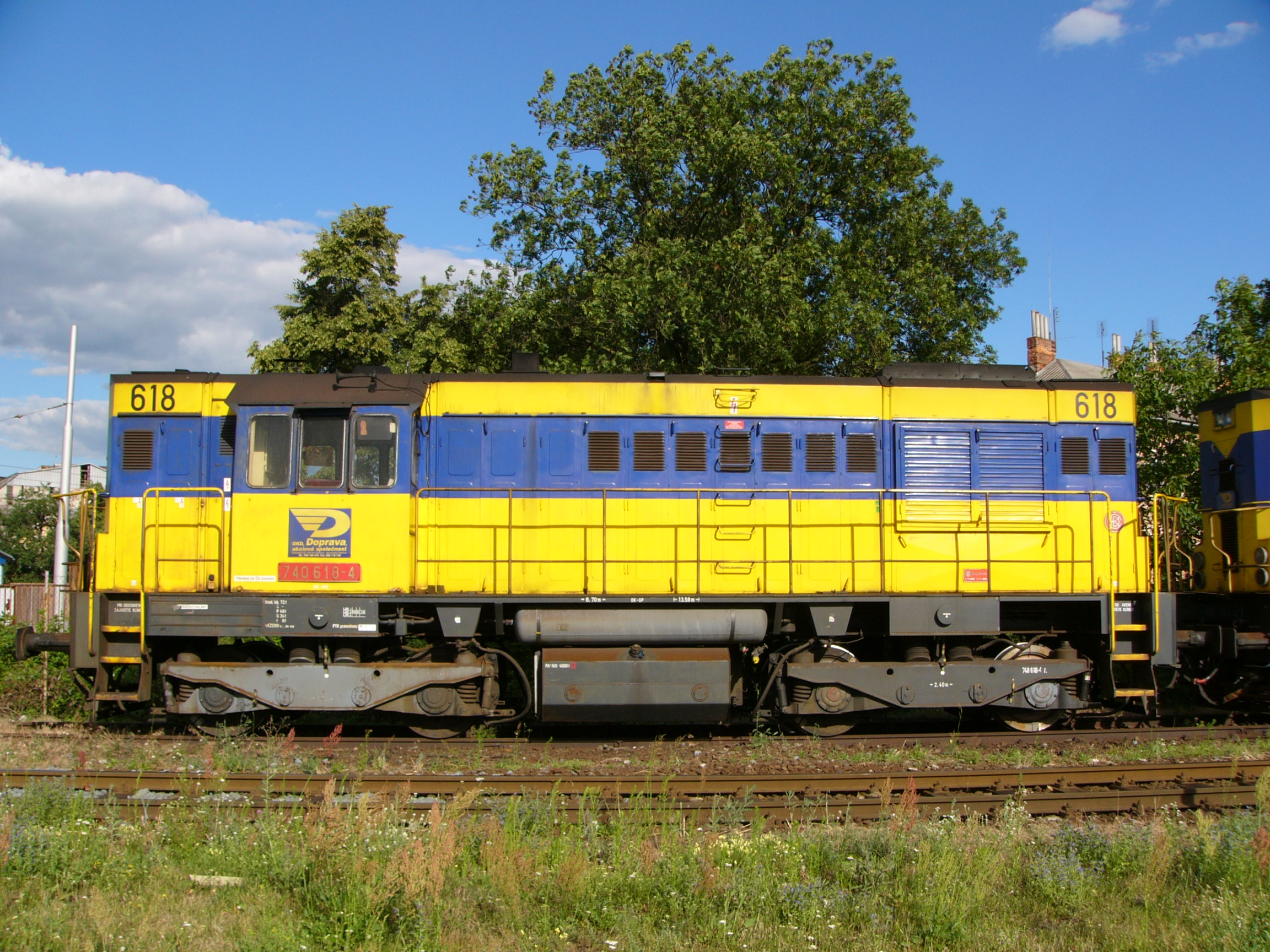 Locomotive 740 618-4 in Olomouc (Czech Republic).